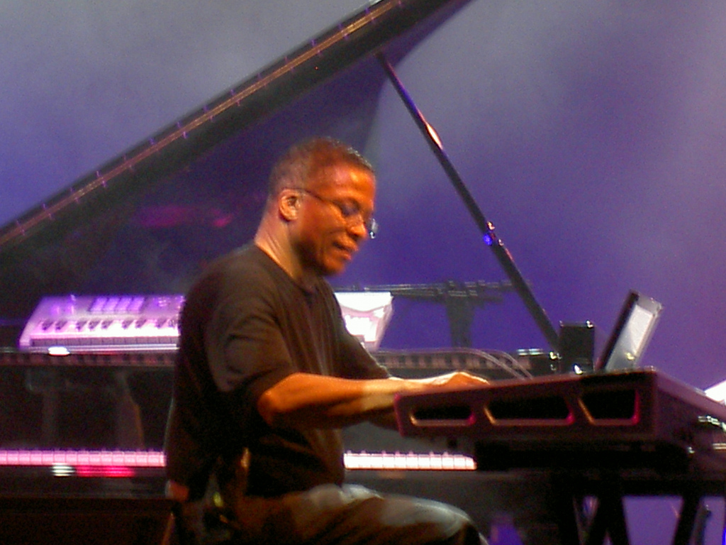 Herbie_Hancock_Tollwood_062